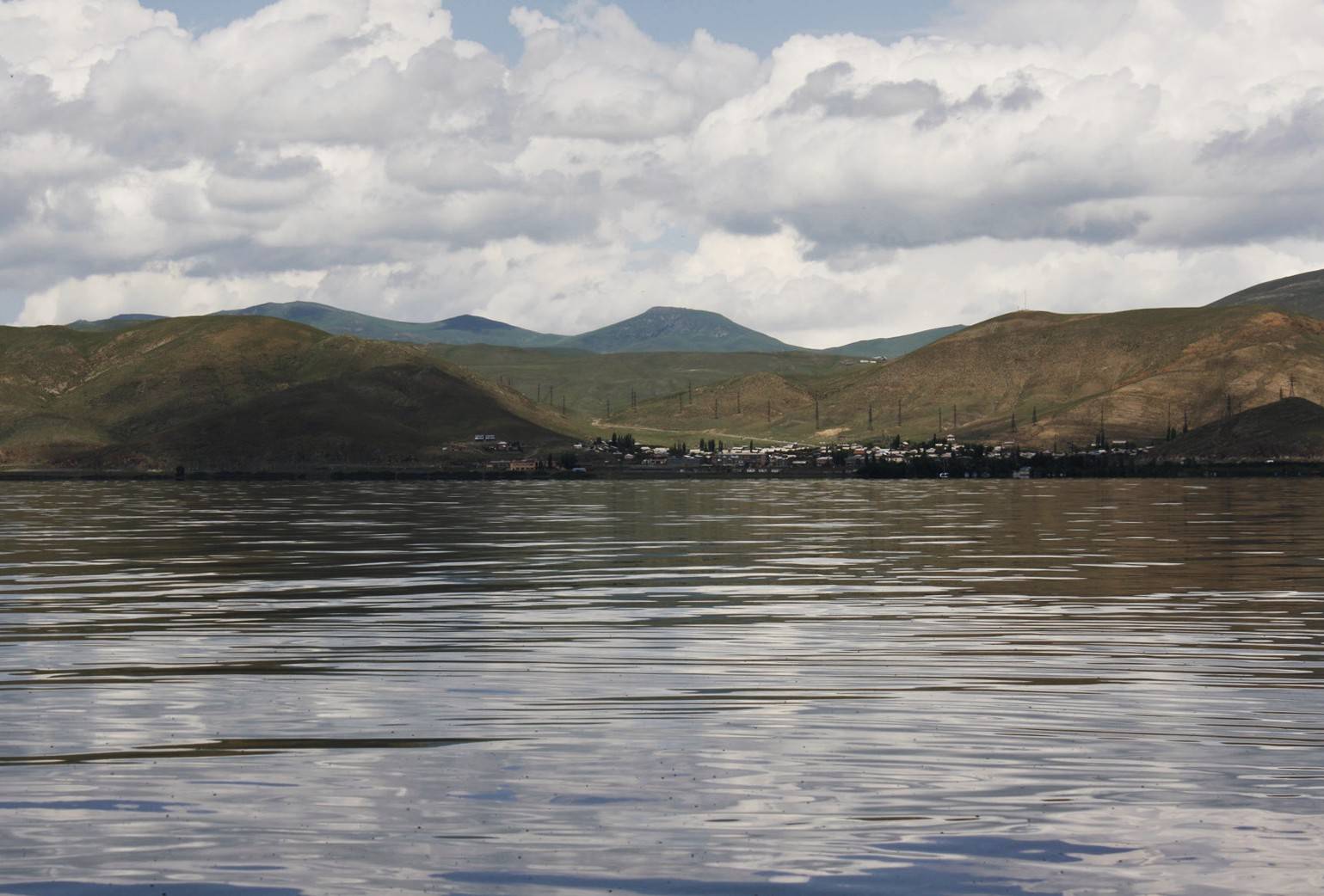 Shorzha as seen from the Artanish Peninsula